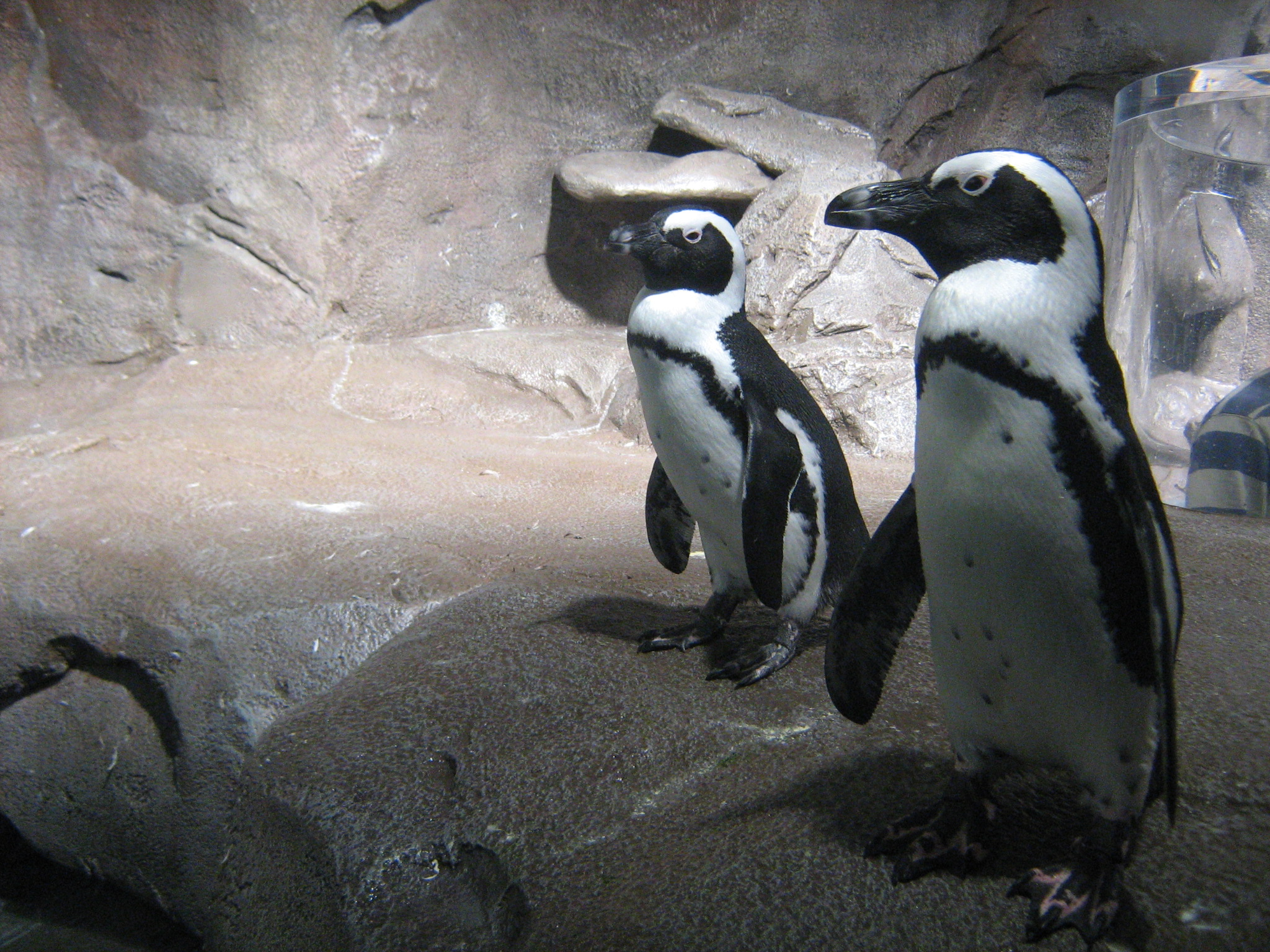 African Penguins at the Georgia Aquarium in Atlanta